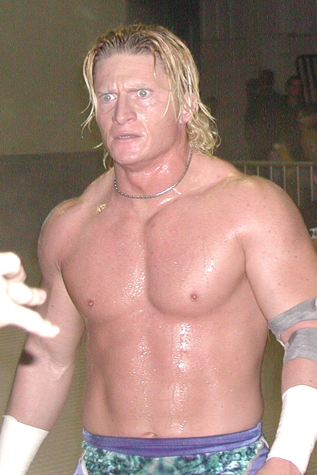 Ace Steel at an NWA Midwest/Midwest Championship Wrestling show at the College of Lake County in Grayslake, IL on November 23, en:2002.